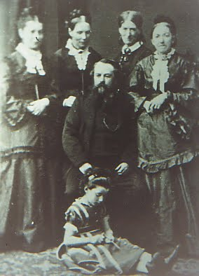 Photo of James Bartram with his grandmother Lady Bartram and other relatives.